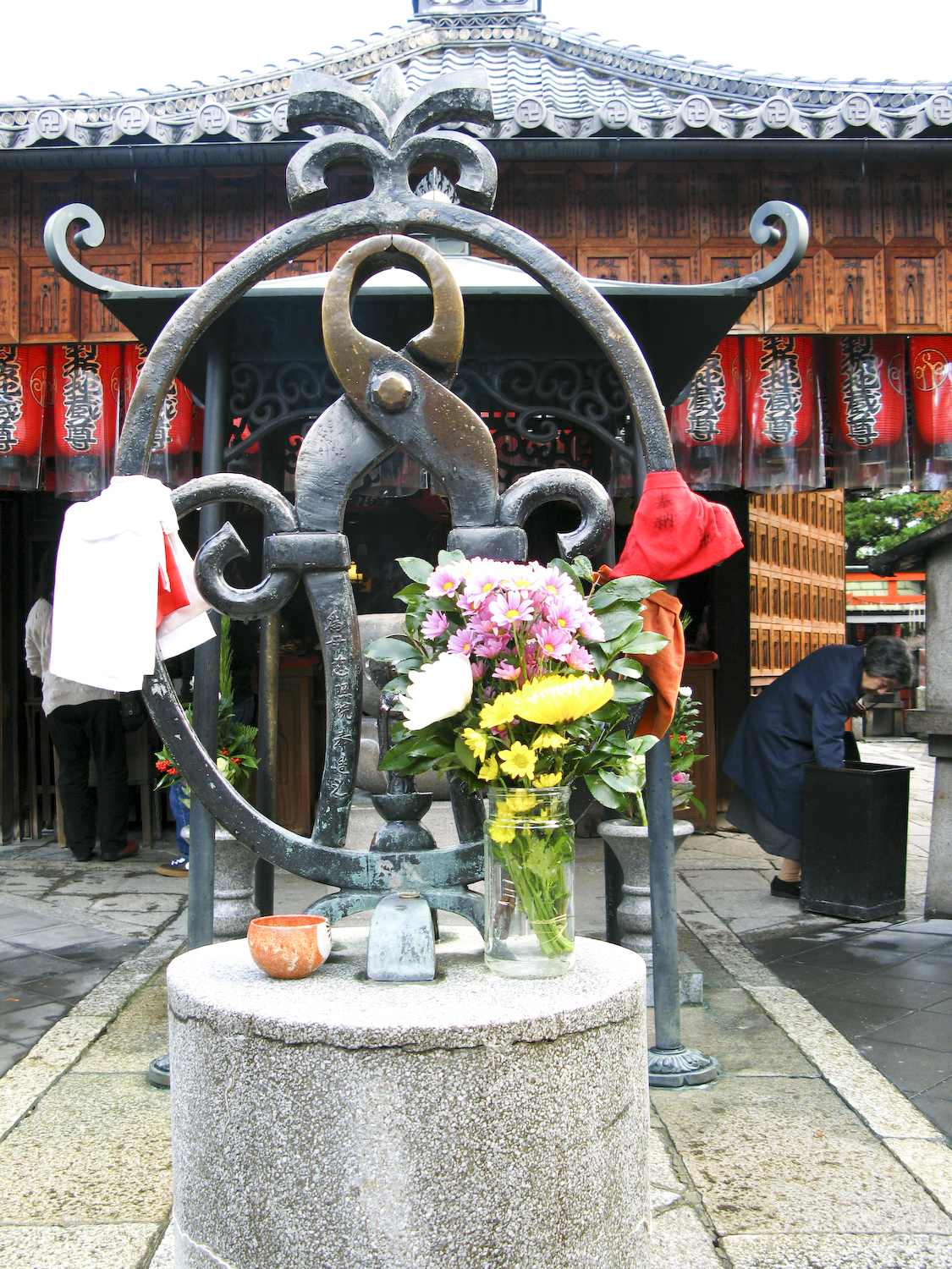 Shakuzōji, a Buddhist temple in Kyoto, is devoted to Jizō, protector of children. Nail-puller